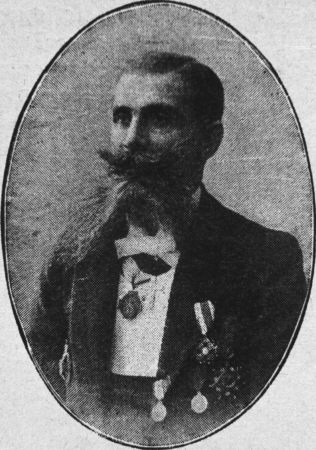 Georgios Vegleris (1850-1923): Greek scholar and writer